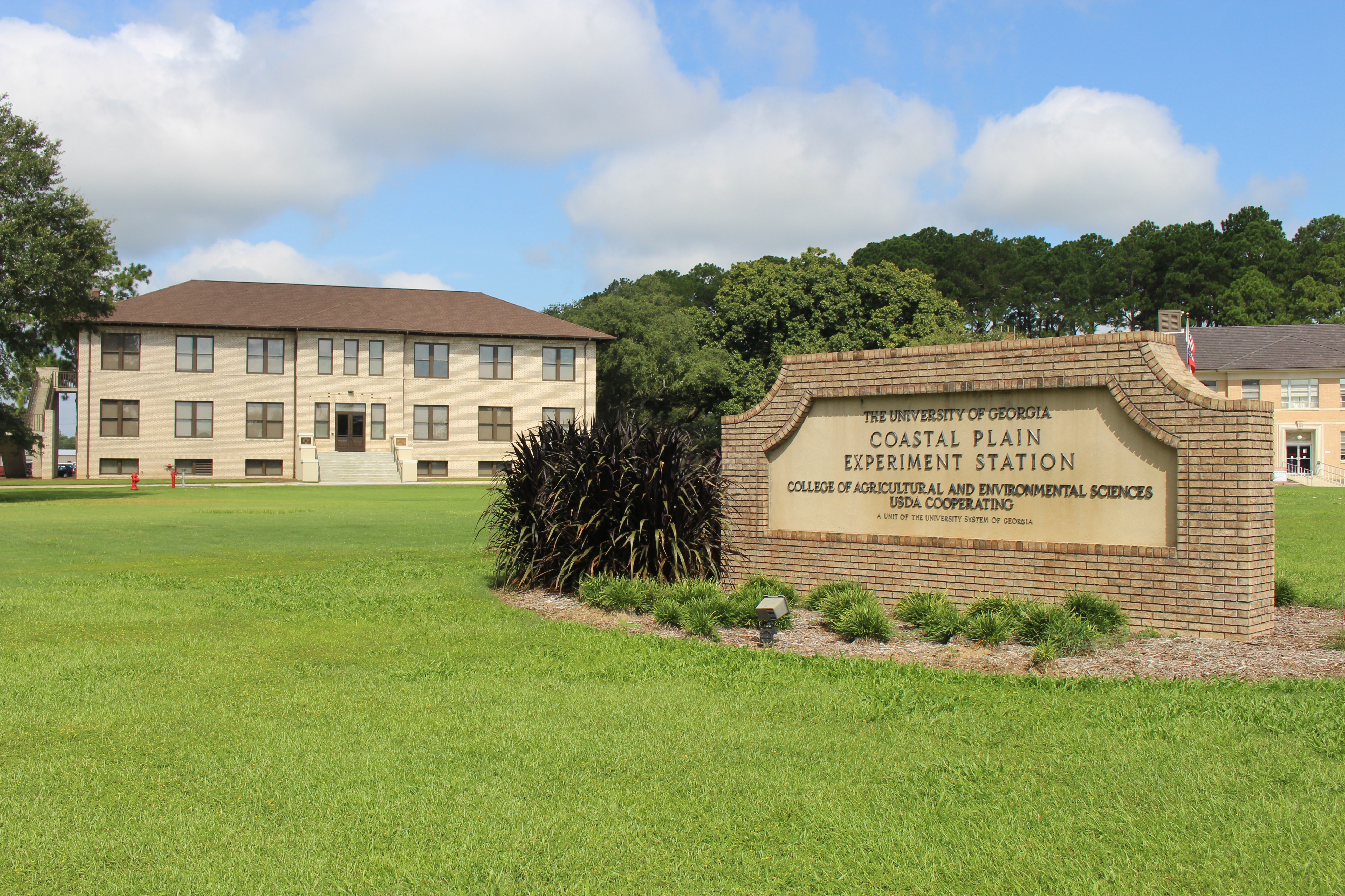 University of Georgia, Coastal Plain Experiment Station, Tifton, Tift County, Georgia